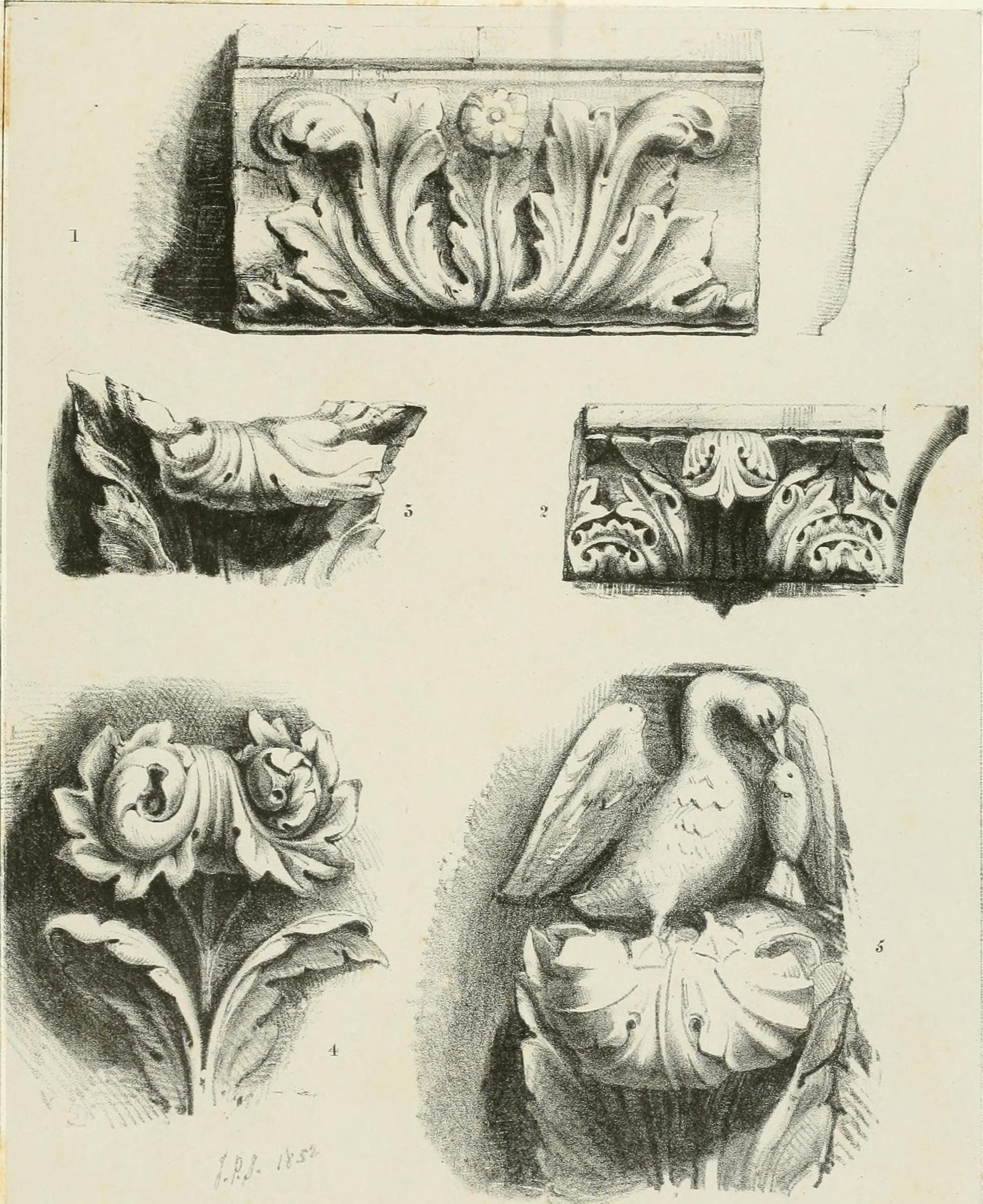 Title: Progress in art and architecture : with precedents for ornament Year: 1852 (1850s) Authors: Seddon, John Pollard, 1827-1906 Subjects: Decoration and ornament Architecture, Gothic Publisher: London : D. Bogue Text Appearing Before Image: PI., io Text Appearing After Image: PL .11.